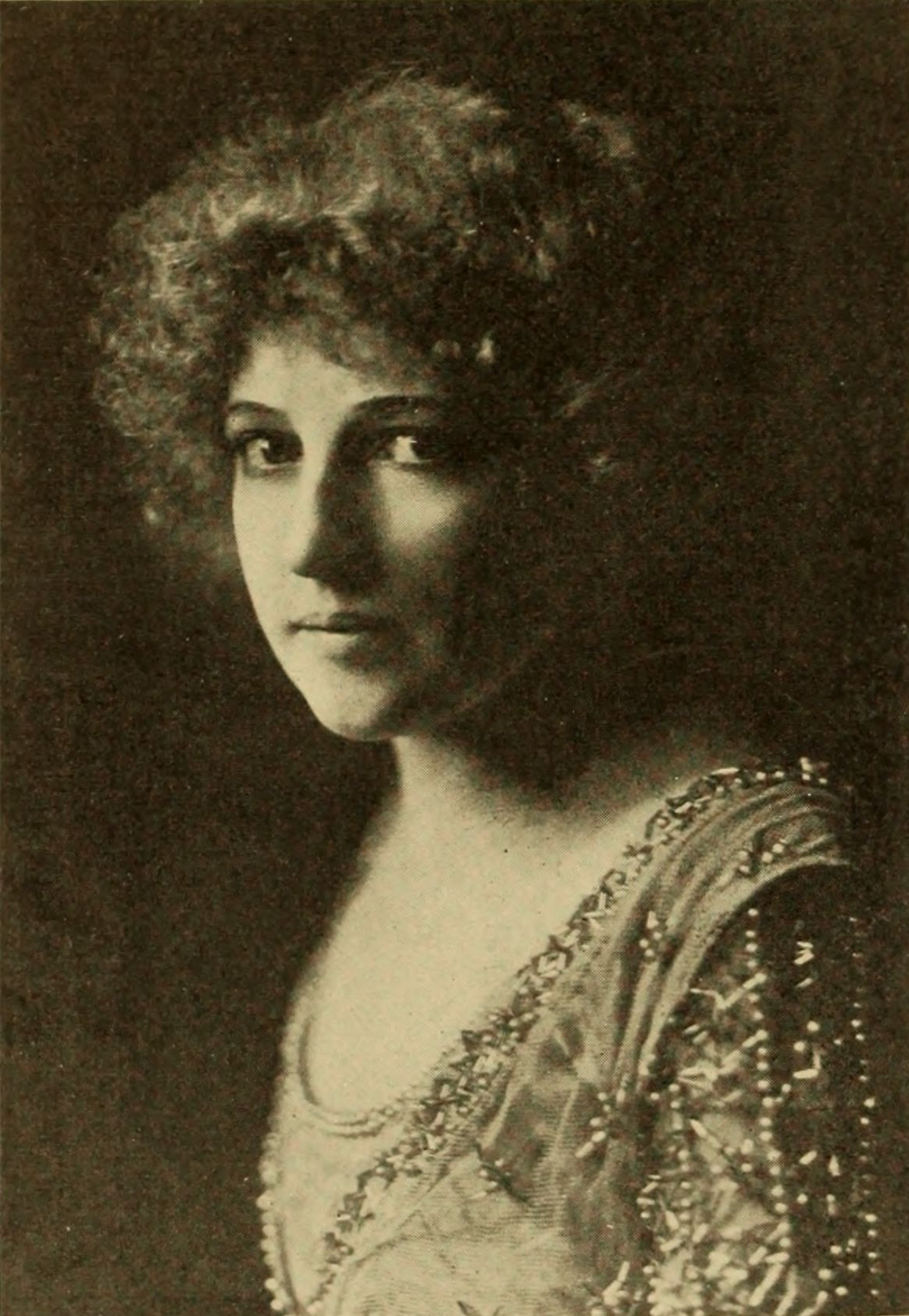 Marion Leonard, 1912